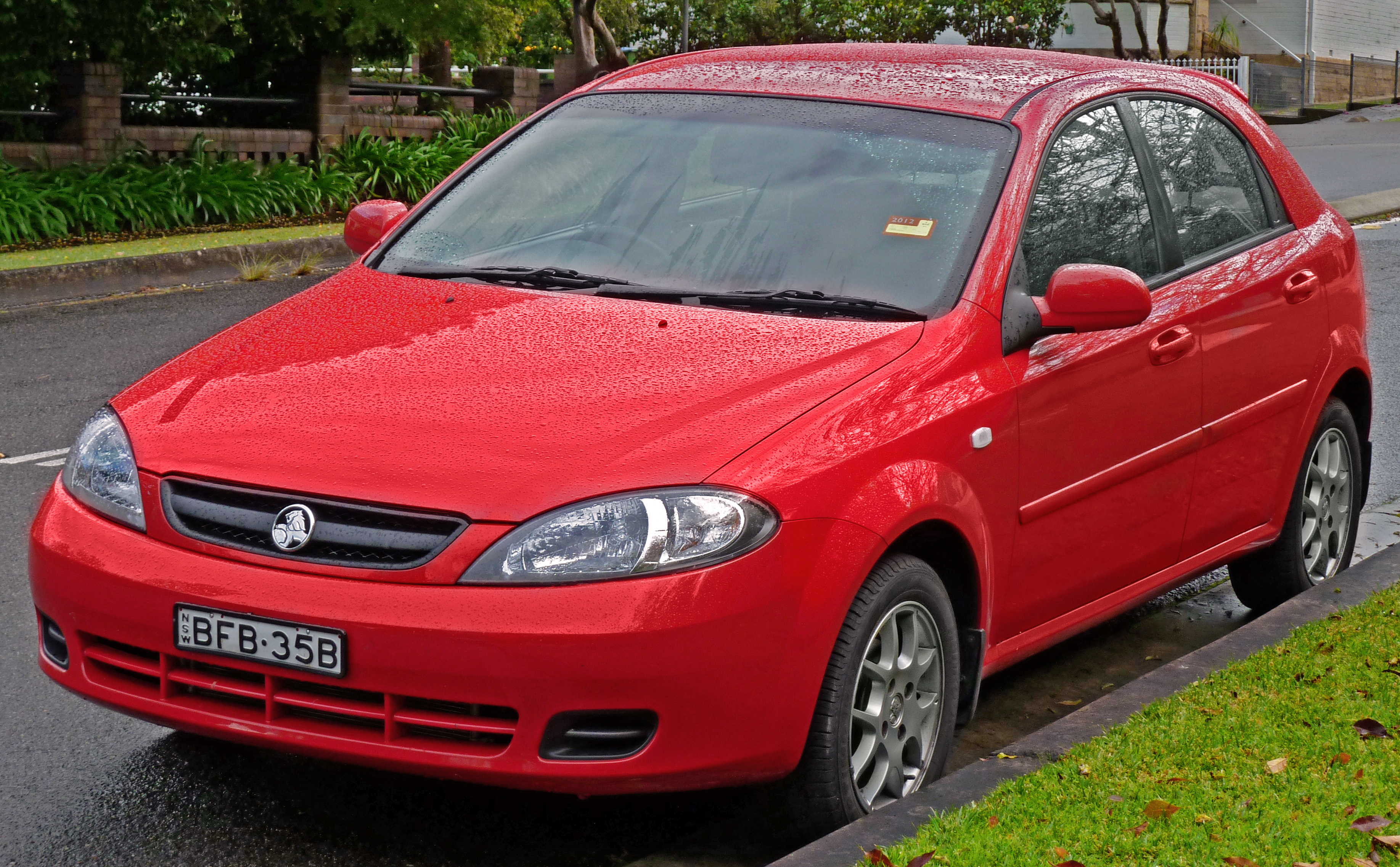 2007–2008 Holden Viva (JF MY08) hatchback. Photographed in Lindfield, New South Wales, Australia.